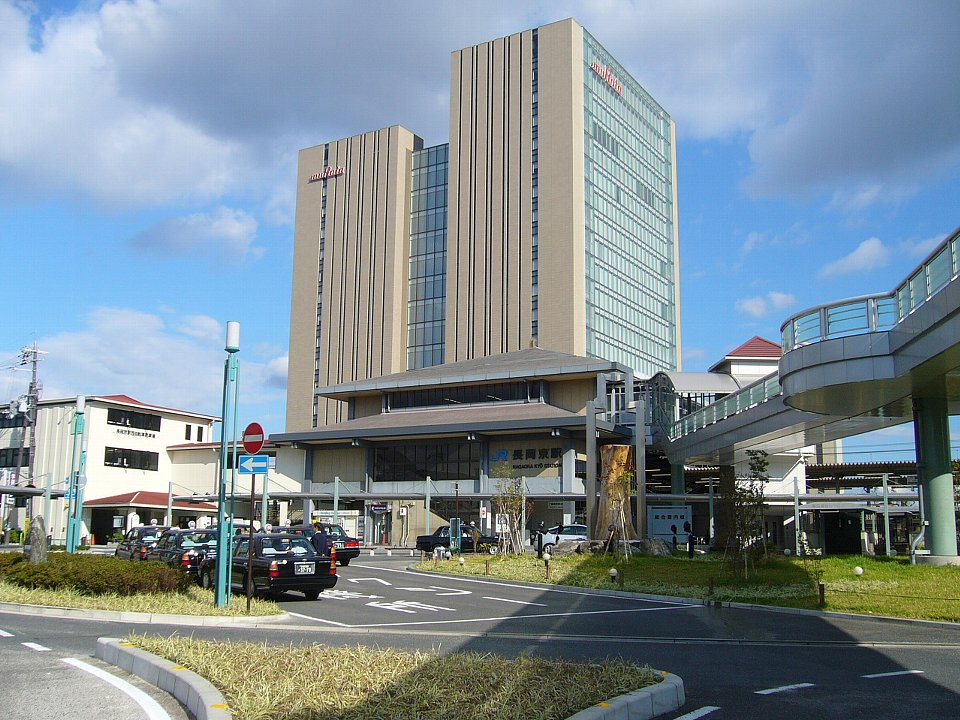 West side of Nagaokyakyō Station on the Tōkaidō Main Line